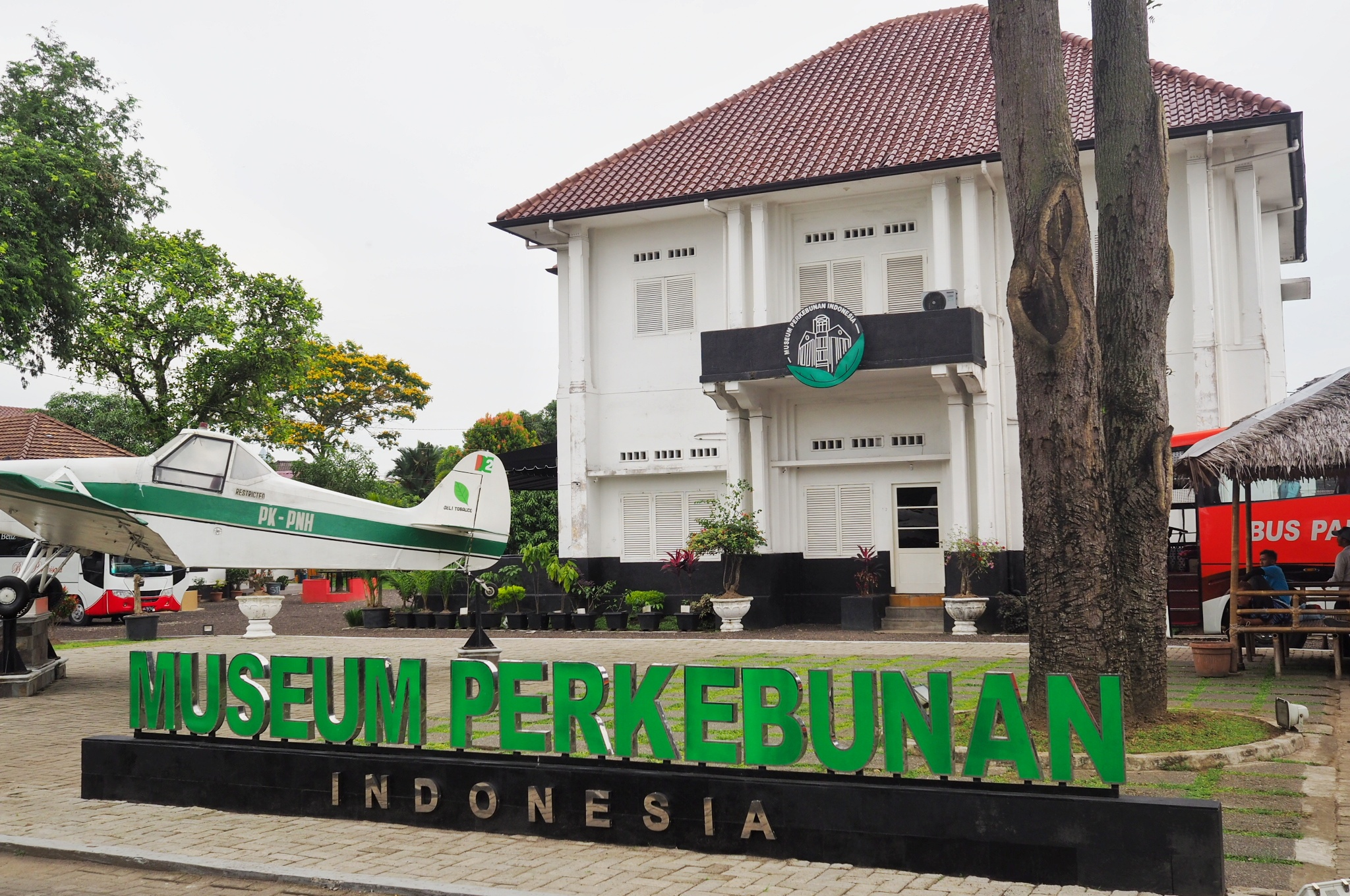 The Plantation Museum of Indonesia